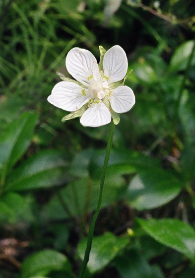 Northern Grass of Parnassus (Parnassia palustris) bears a passing resemblance to a white buttercup. However, the two are not related in any way. It grows in moist regions, near streams or springs, and blooms from July to early August.